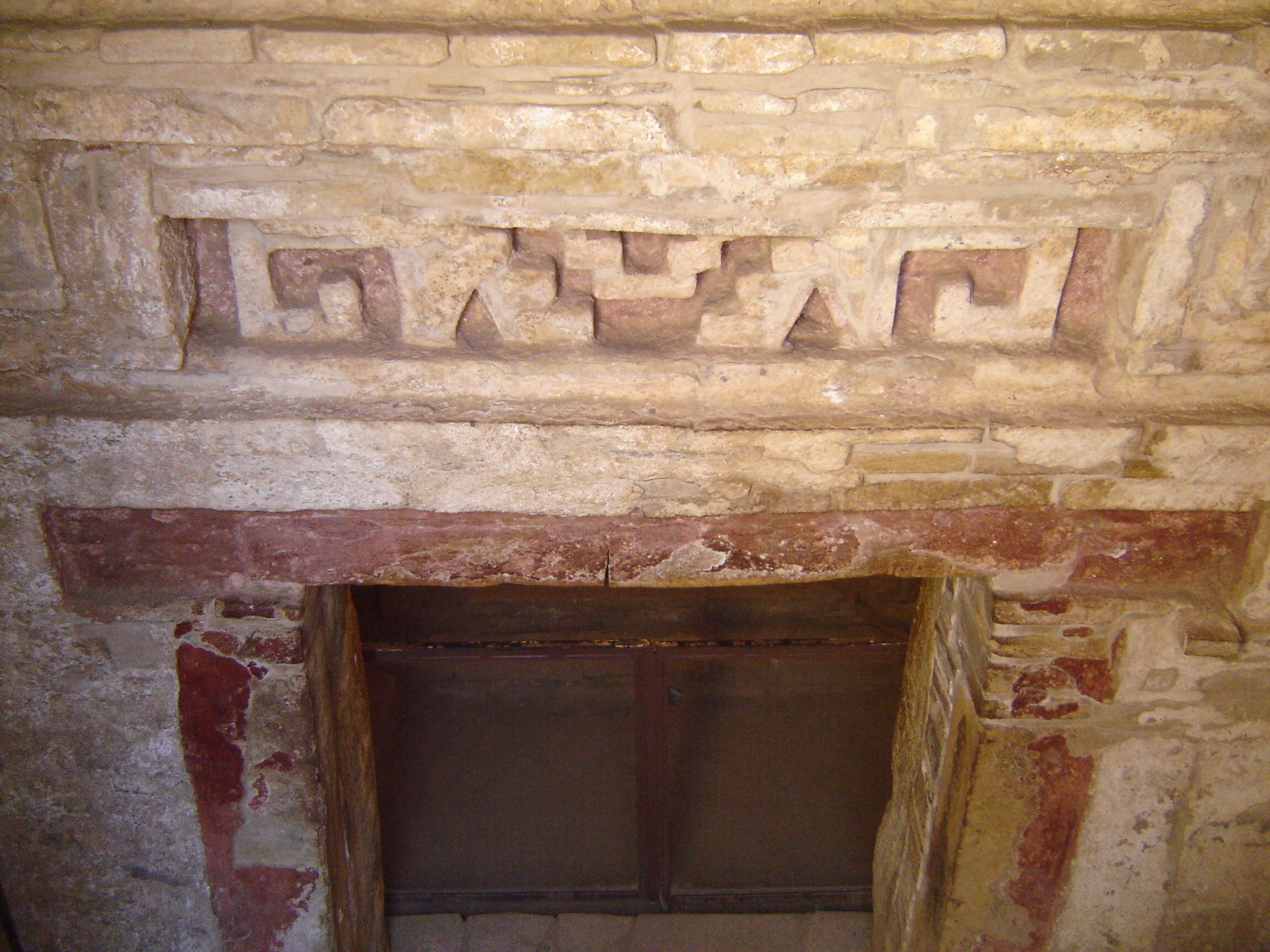 Zaachila oaxaca arqueological site